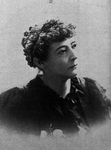 Photographic portrait of Irish-Canadian newspaper columnist Kathleen Blake Coleman (1856–1915) who wrote as "Kit Coleman". Cropped version. From Famous American Men and Women: A Complete Portrait Gallery of Celebrated People, Whose Names Are Prominent in the Annals of the Times. Edited by Stanley Waterloo and John Wesley Hanson, Jr. Chicago, IL: Wabash Publishing House, 1896: p. 463